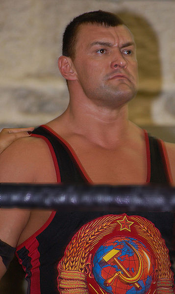 Photo I took of Oleg Prudius in August 2007, Louisville, Kentucky.